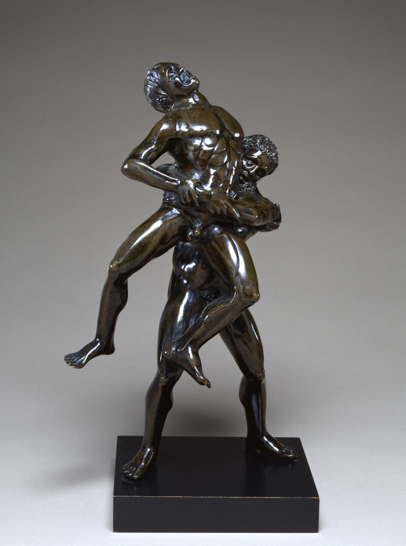 In Greco-Roman mythology, the hero Hercules was raised to the ranks of the gods because of his great deeds. His feats were depicted by artists who enjoyed displaying their mastery of the heroic male nude. One of Hercules's adventures took place in Libya: King Antaeus, a vicious giant and son of Mother Earth, forced travelers to wrestle with him. As long as he touched the earth (his mother), his energy was maintained, and he was able to kill his opponents. Hercules held Antaeus off the ground and crushed him. In the Renaissance, the subject was interpreted as the triumph of virtue. A Roman marble copy (in the Pitti Palace, Florence) after a Greek bronze of the subject was known before 1500, but all that remained of Antaeus was his torso. This is one of many reconstructions imagined by sculptors. The modeling is austere, but the struggle is convincing. A more refined cast of this piece belonged to Archduke Ferdinand of Austria.